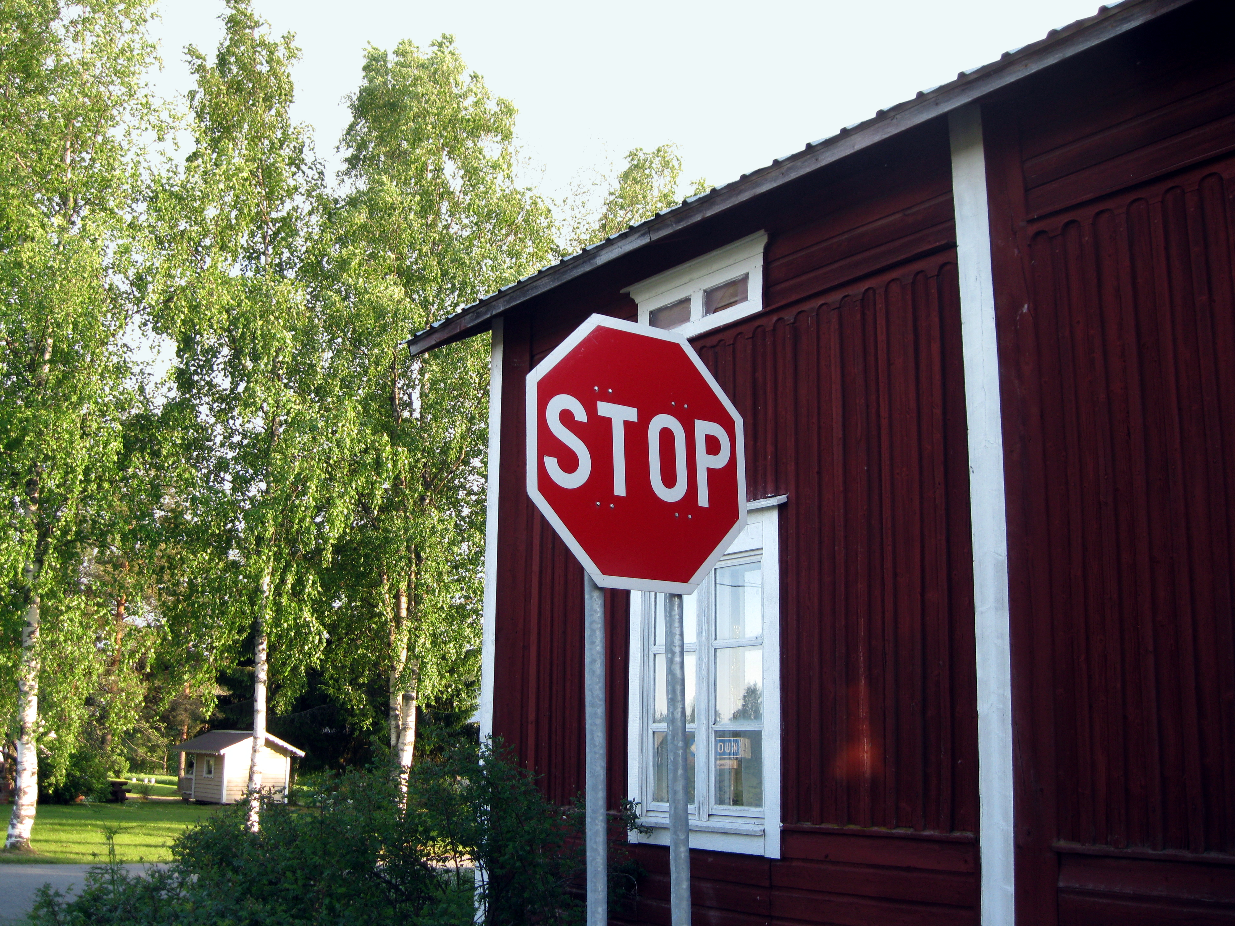 Finnish STOP road sign.